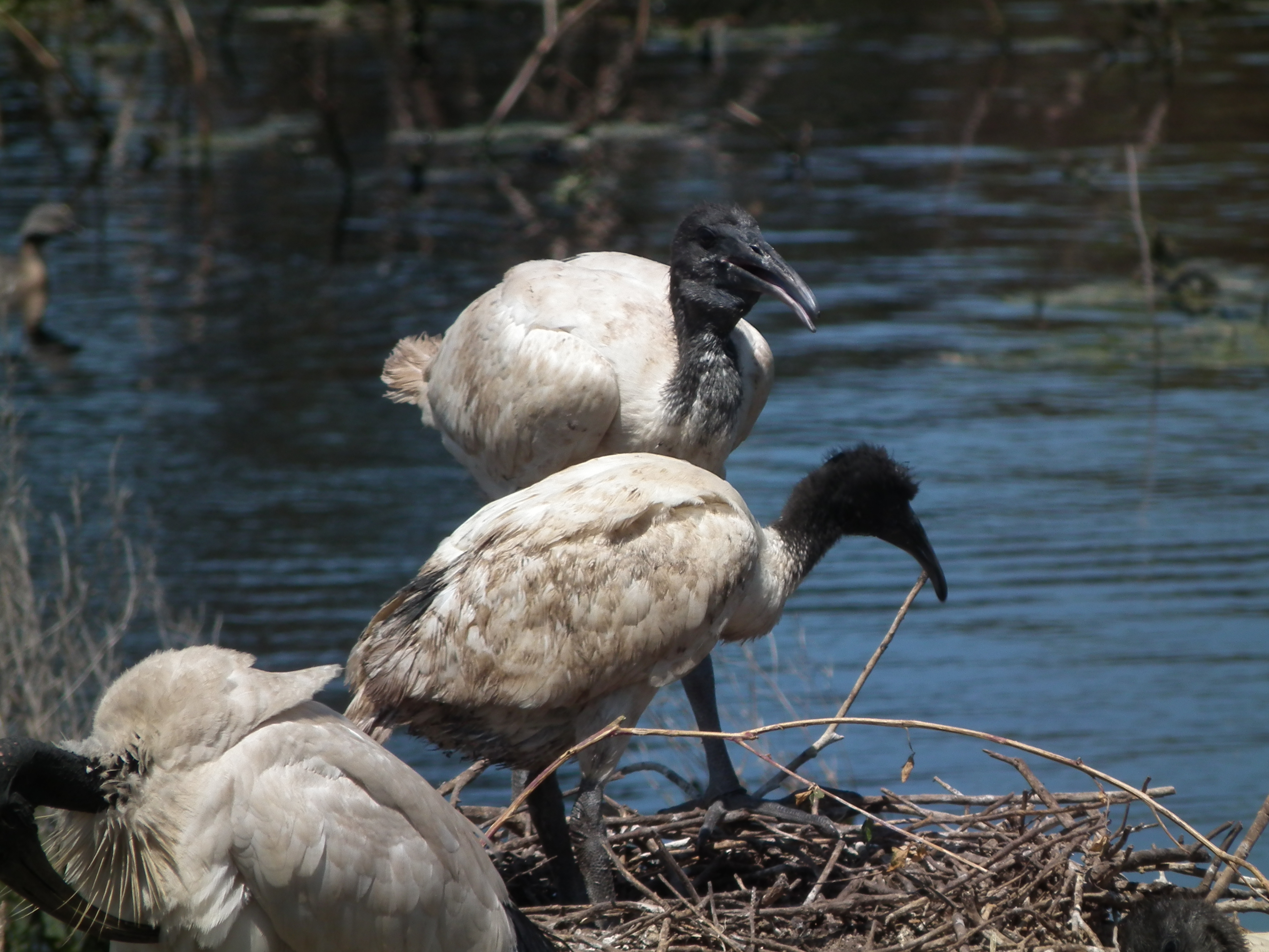 juvenile Australian White Ibises on nests at Coolart Wetlands, Mornington Peninsula, Australia.